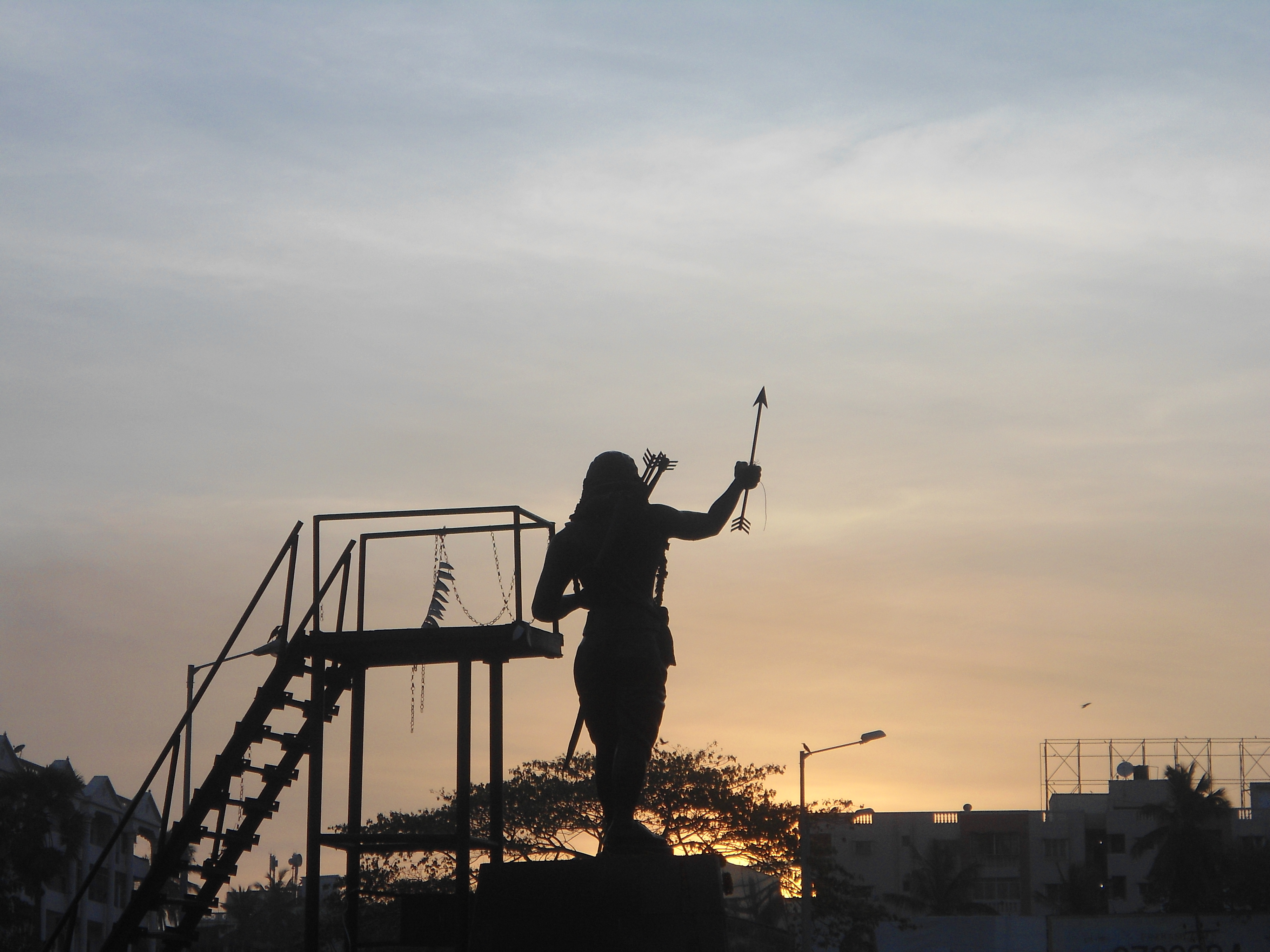 Alluri Statue at Beach road in Vizag (Visakhapatnam)